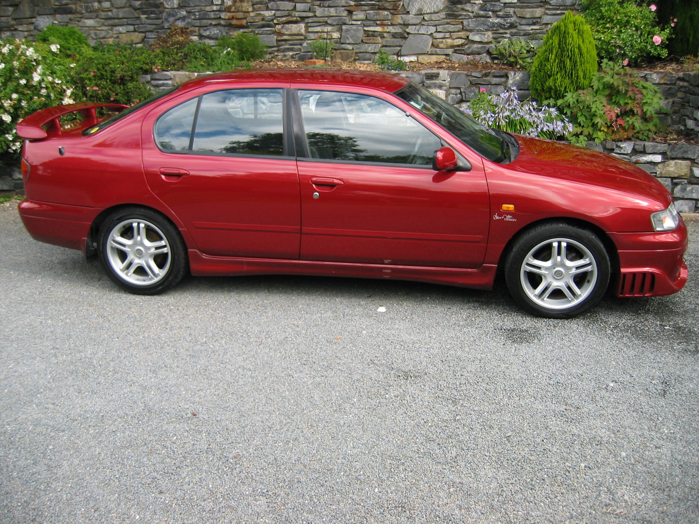 1998 Nissan Primera SMX